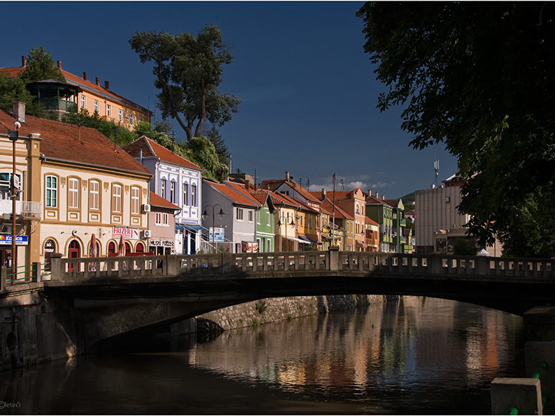 Centre of Knjaževac